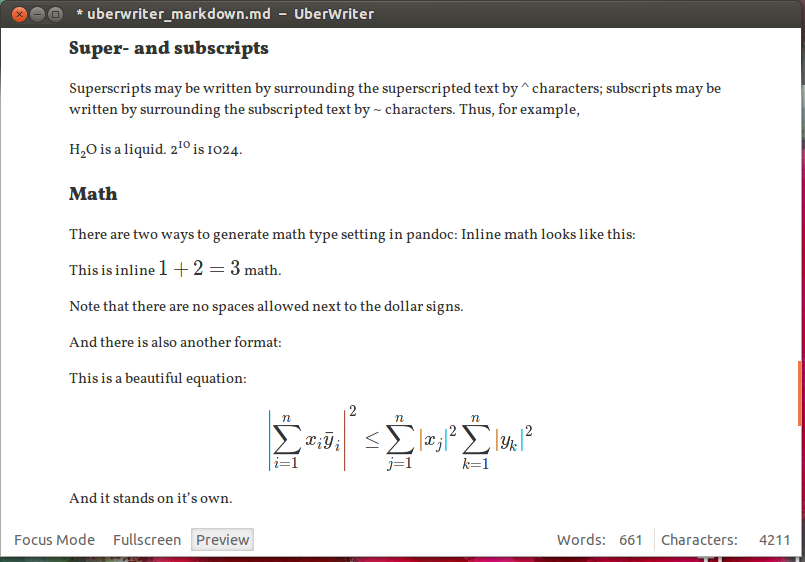 UberWriter displaying TEX math